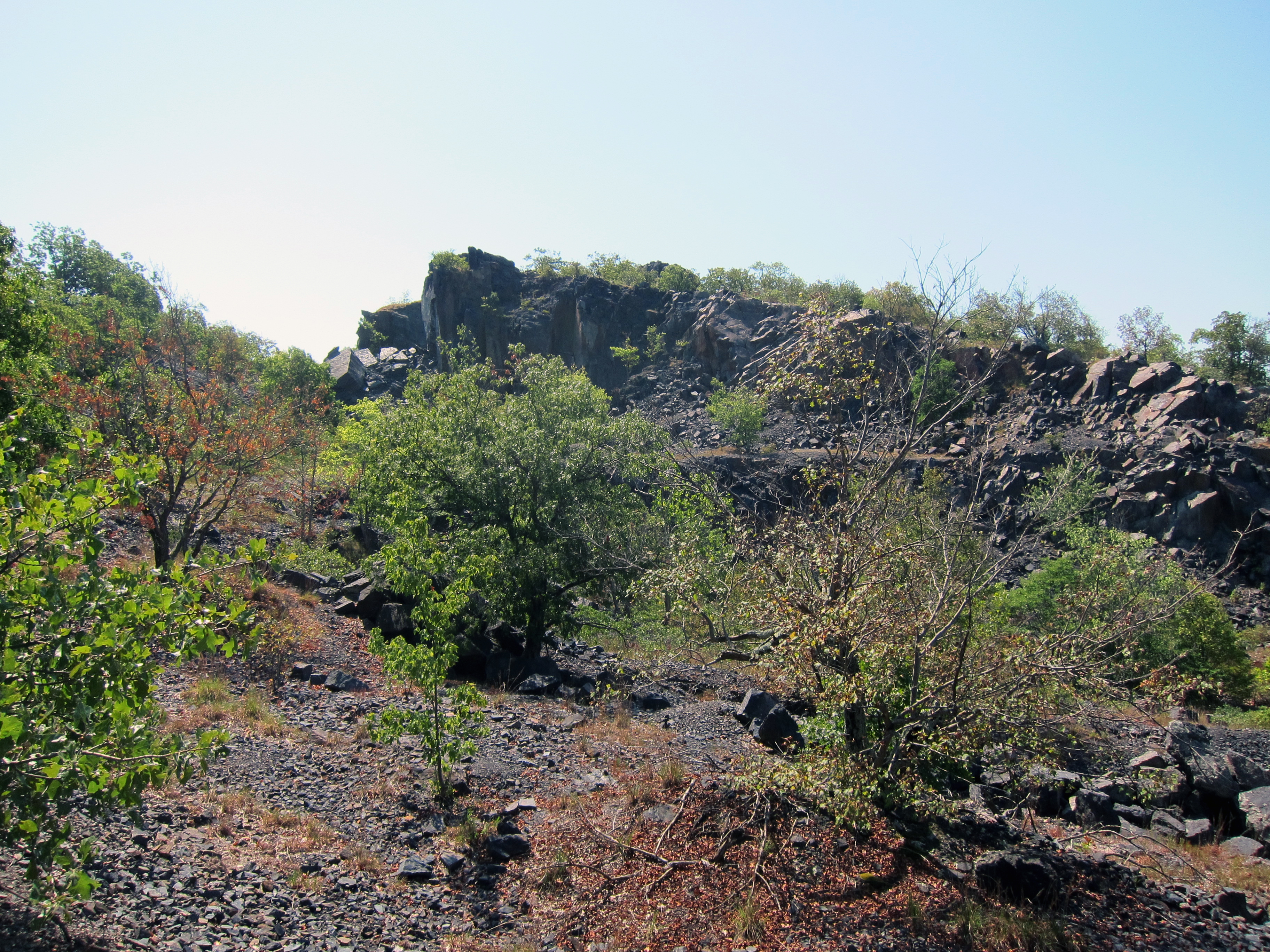 Photo by USFWS.